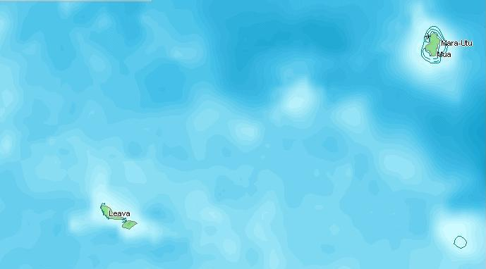 Uvea free maps